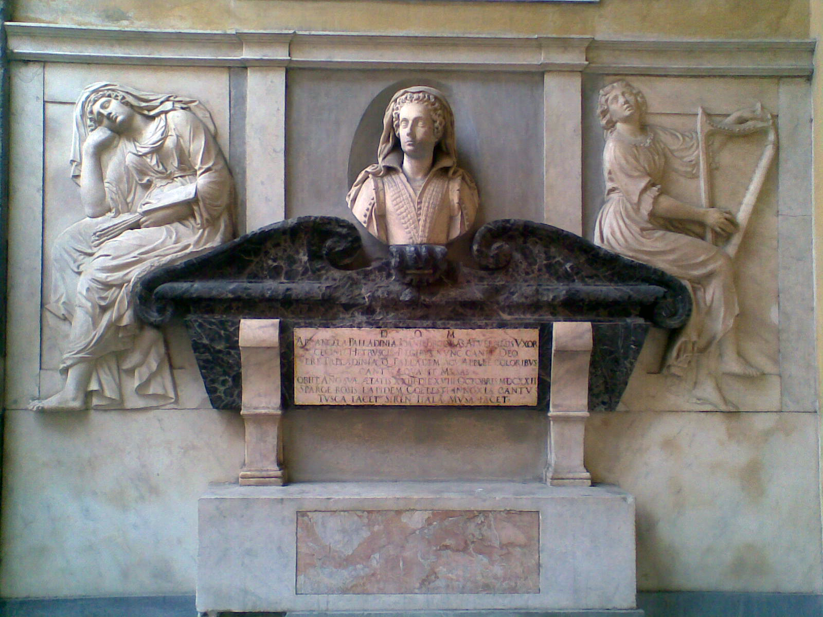 Funerary monument of Arcangela Palladini (1599-1622), Italian artist, writer and musician, at the court of Maddalena of Austria.